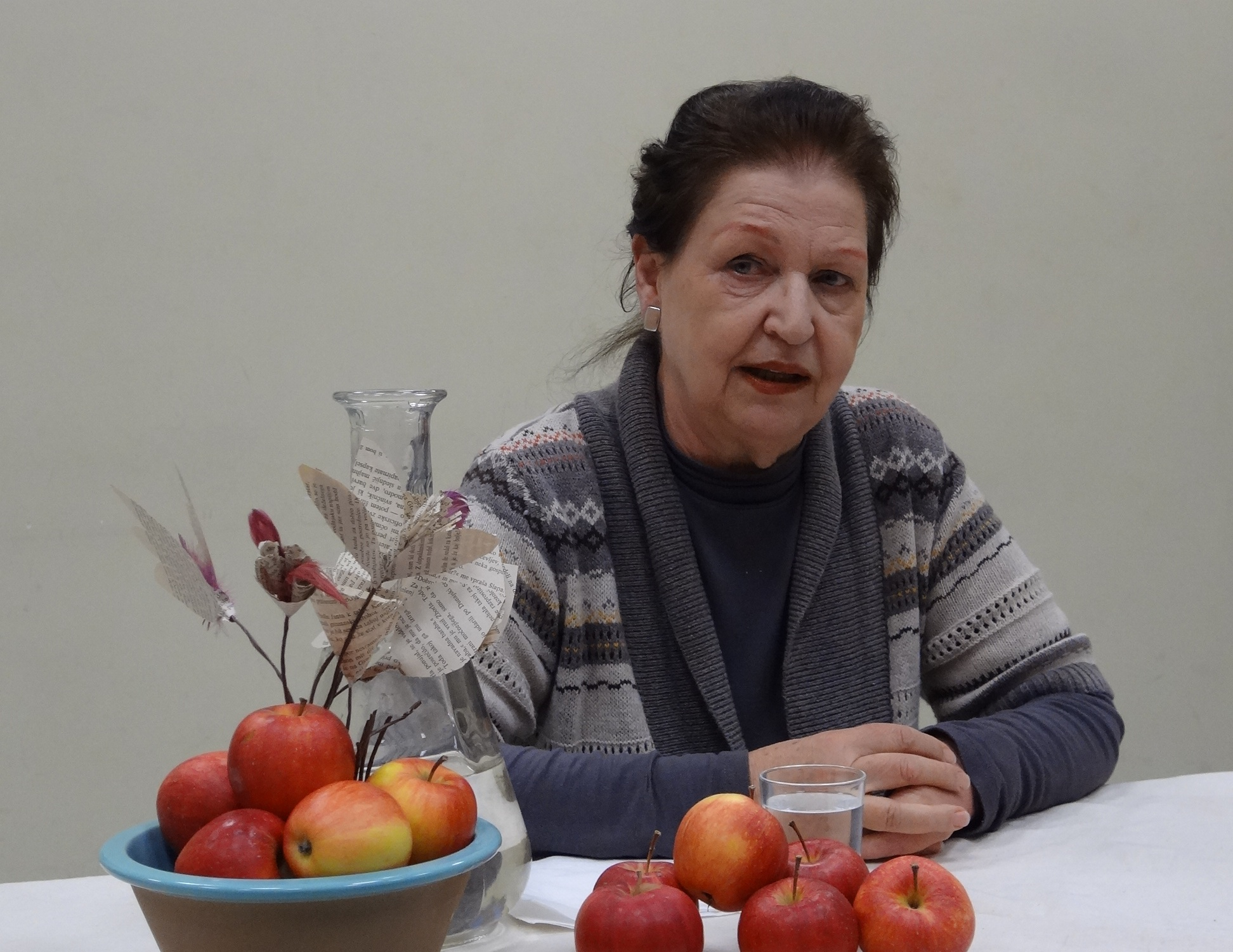 Alenka Puhar, publicist, SlovenijaSlovenščina: PUblicistka Alenka Puhar